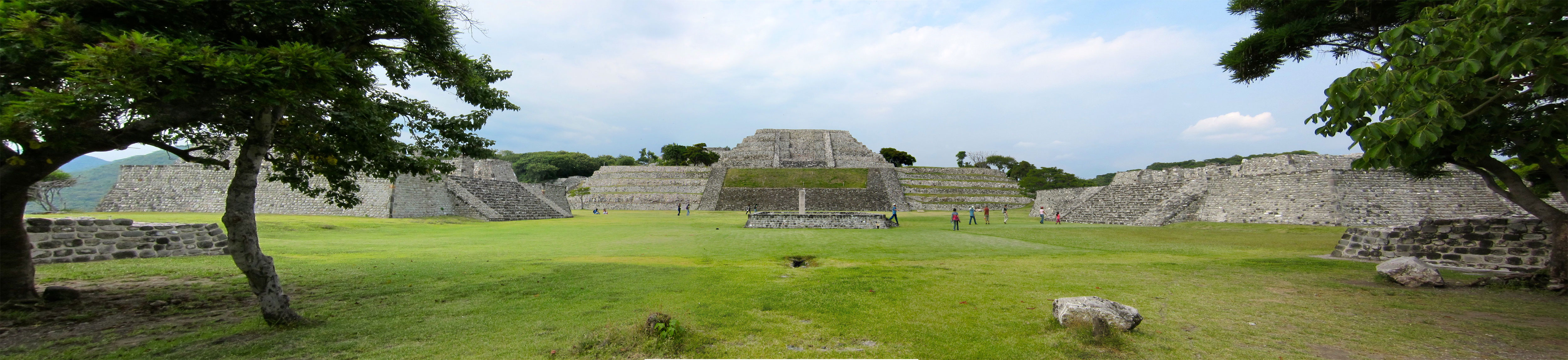 Panoramic view of xochicalco pyramids